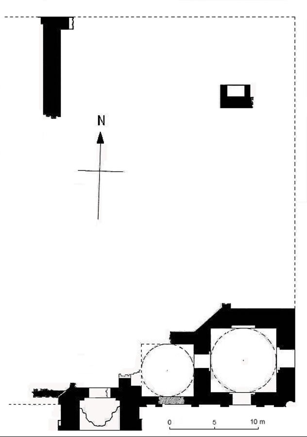 Shah-i Mashhad, plan of the building